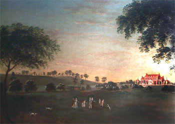 Francis Guy's portrait of Harry Dorsey Gough's Perry Hall mansion, located in eastern Baltimore County Maryland. — for images of 2-D (flat) works of art where the artist died more than 70 years ago.